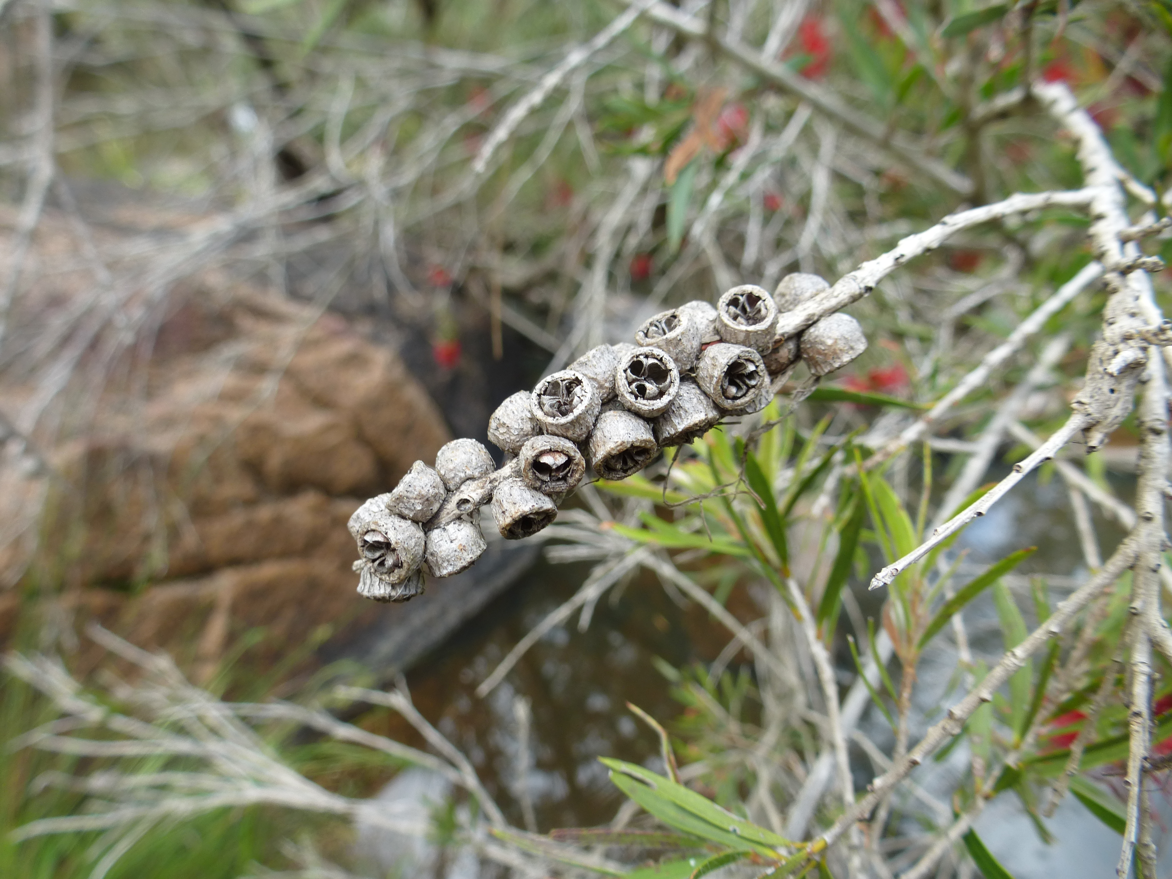 Melaleuca sabrina growing on the banks of the Severn River (Queensland) near Ballendean